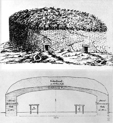 Cartoon of stone house in Orongo. Voyage german captain Geisseler in 1882 year.